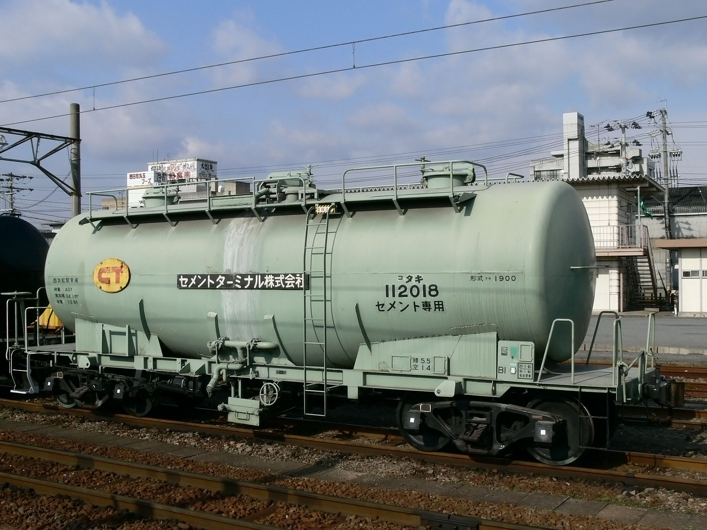 A Japanese National Railways TaKi 1900 cement tank wagon at Yokkaichi Station in Mie Prefecture, Japan